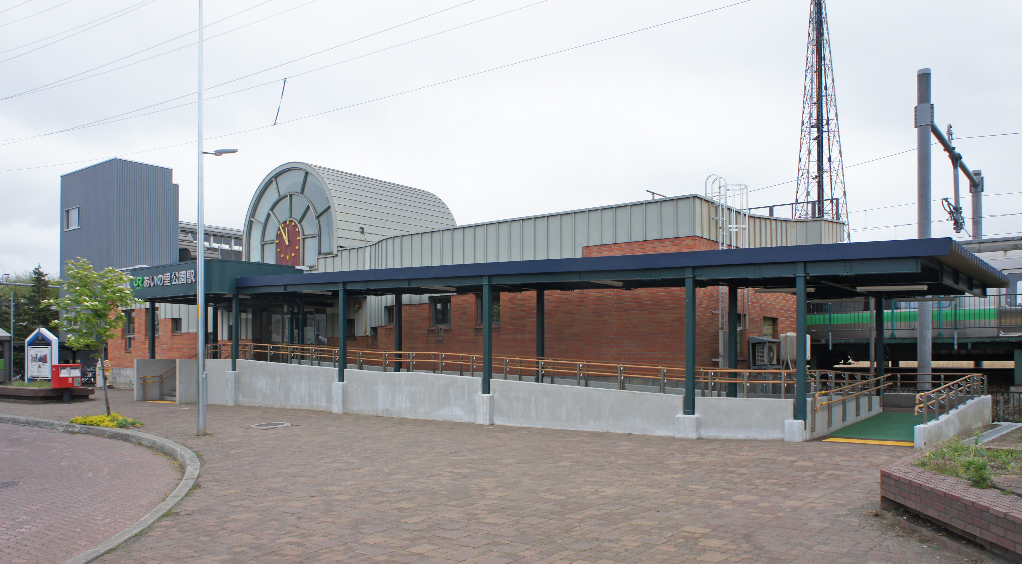 Station building of JR Sassho-Line Ainosato-Koen Station Sony NEX-3 + E 18-55mm F3.5-5.6 OSS